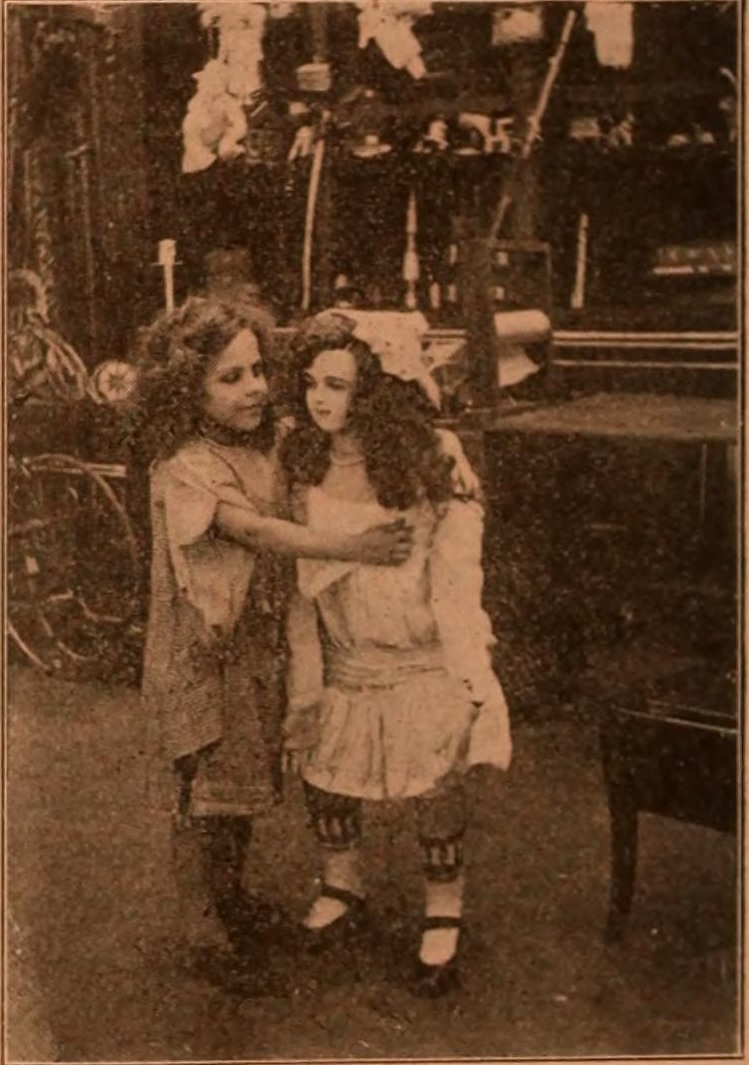 A film still from Delightful Dolly by the Thanhouser Company. Made in 1910.